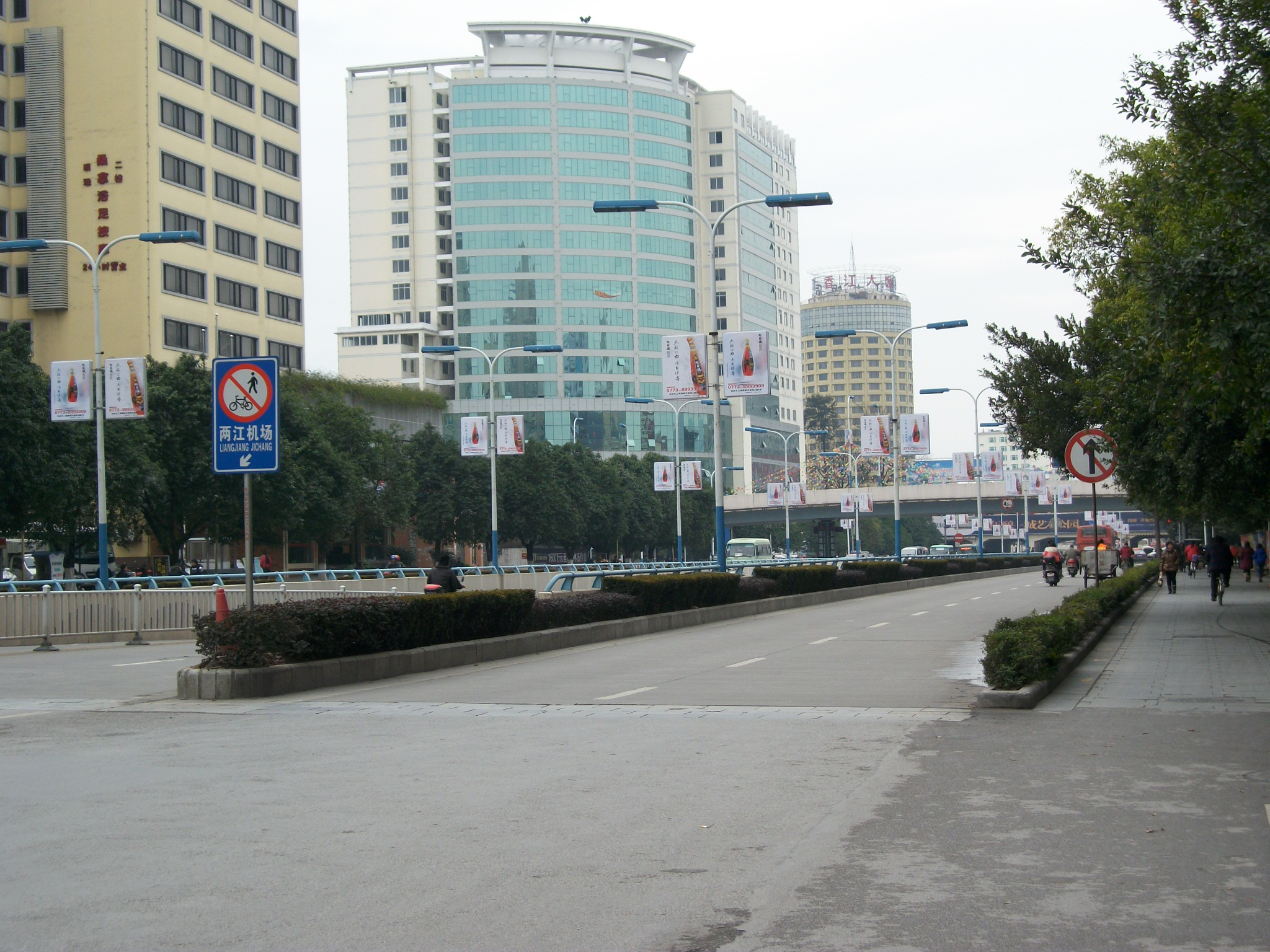 Shanghai Road Interchange, Guilin.